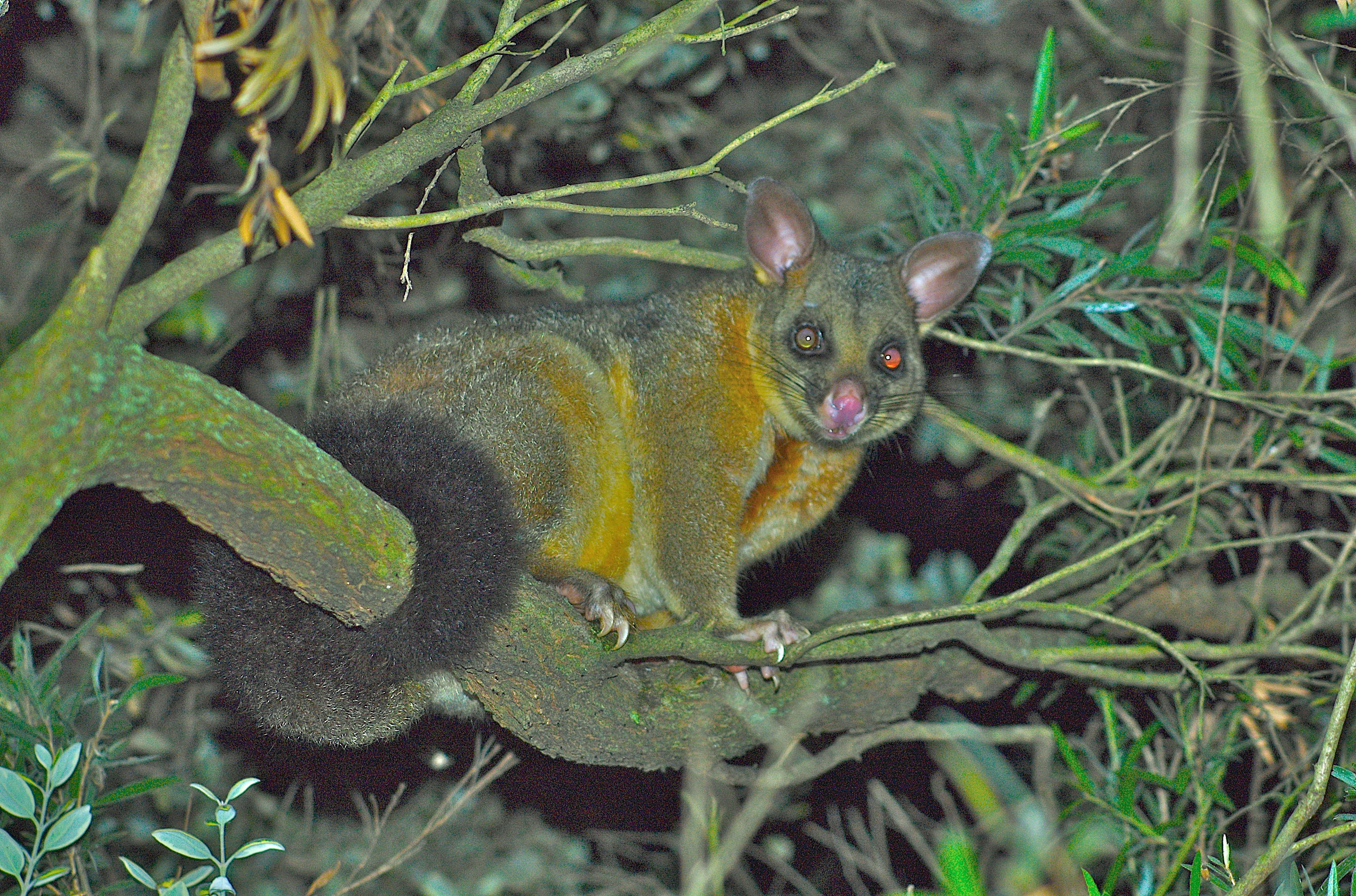 Common Brushtail Possum, Daniel Andrews, Sydney, Australia Bookhouse